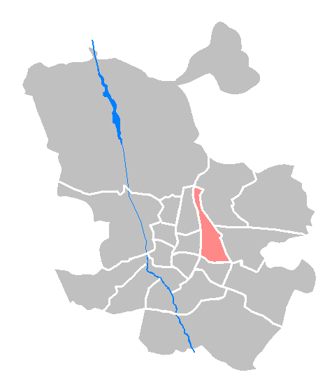 Locator maps of districts in Madrid: Maps - ES - Madrid - Ciudad Lineal.PNG